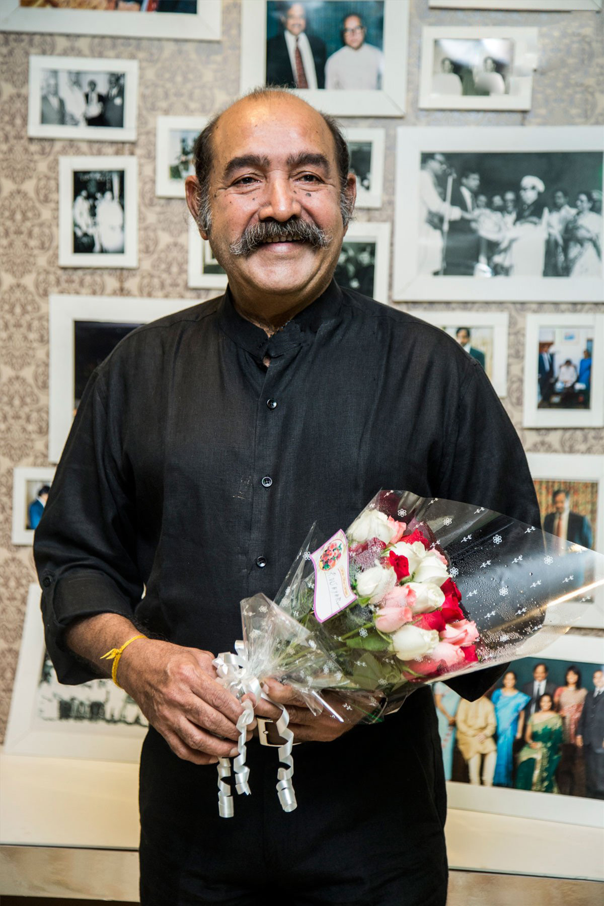 Vijayakumar at the Book Launch of Palani G Periyasamy’s ‘Idhaya Oli’